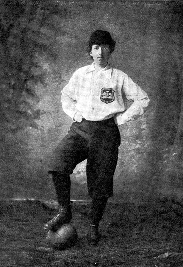 Scottish suffragette and women's footballer Helen Graham Matthews in 1895